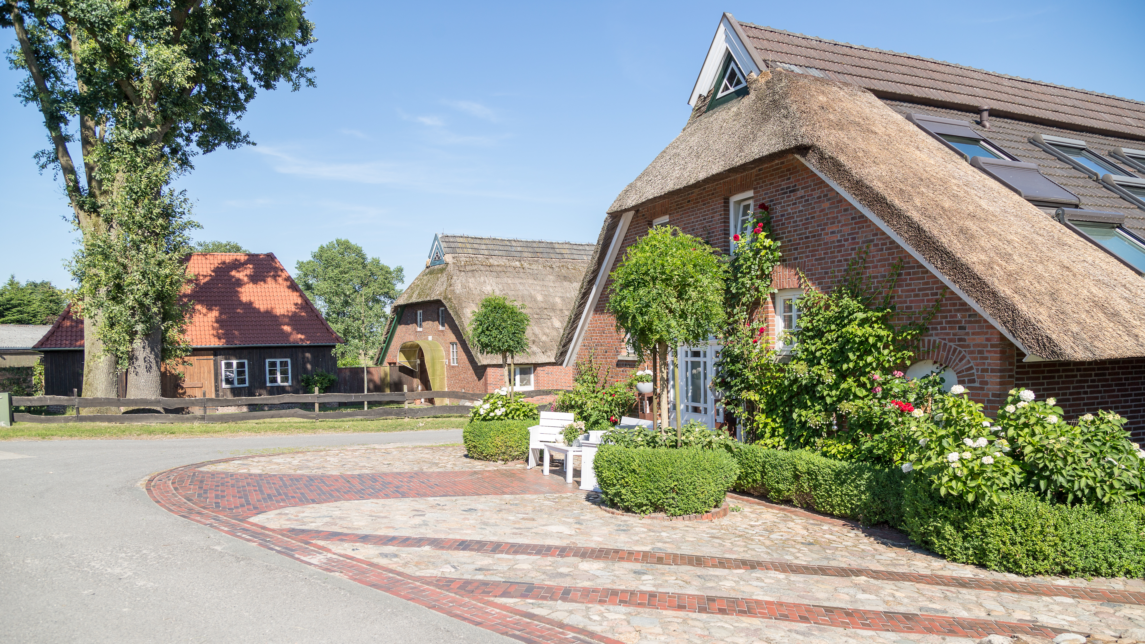 Ehemalige Bauernhäuser in Klein-Bornhorst (Oldenburg)